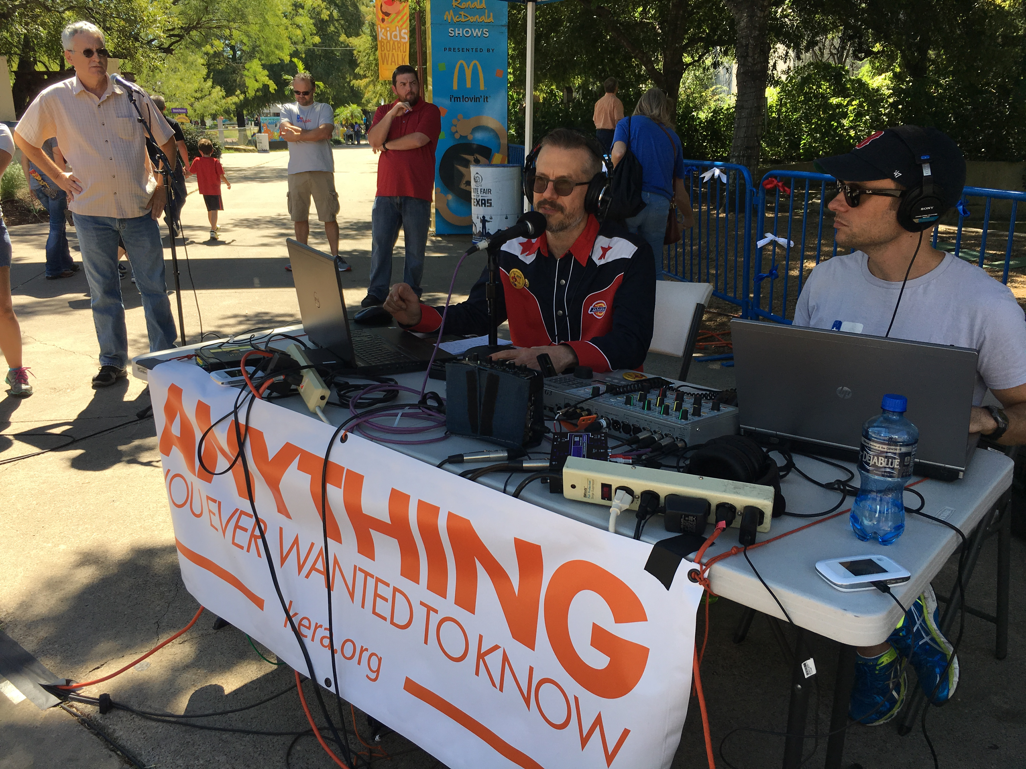 Anything You Ever Wanted To Know live broadcast at the State Fair of Texas